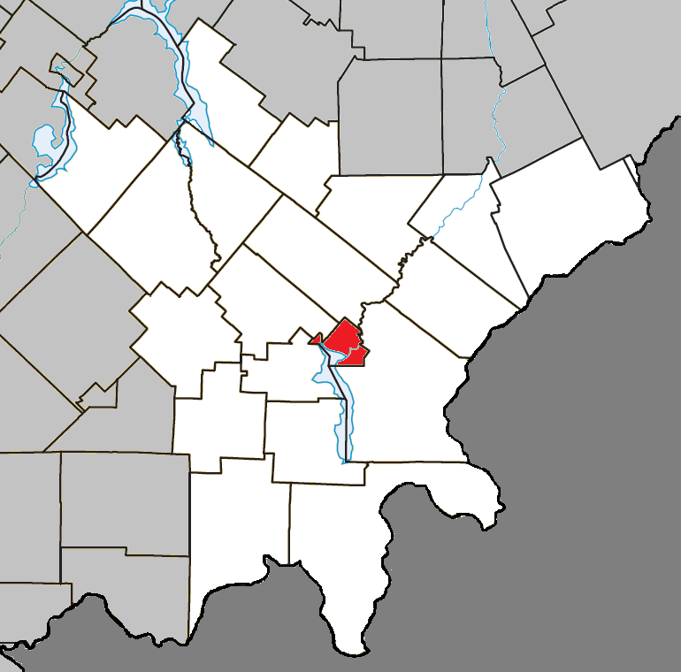 Location of Lac-Mégantic, Quebec within Le Granit Regional County Municipality.